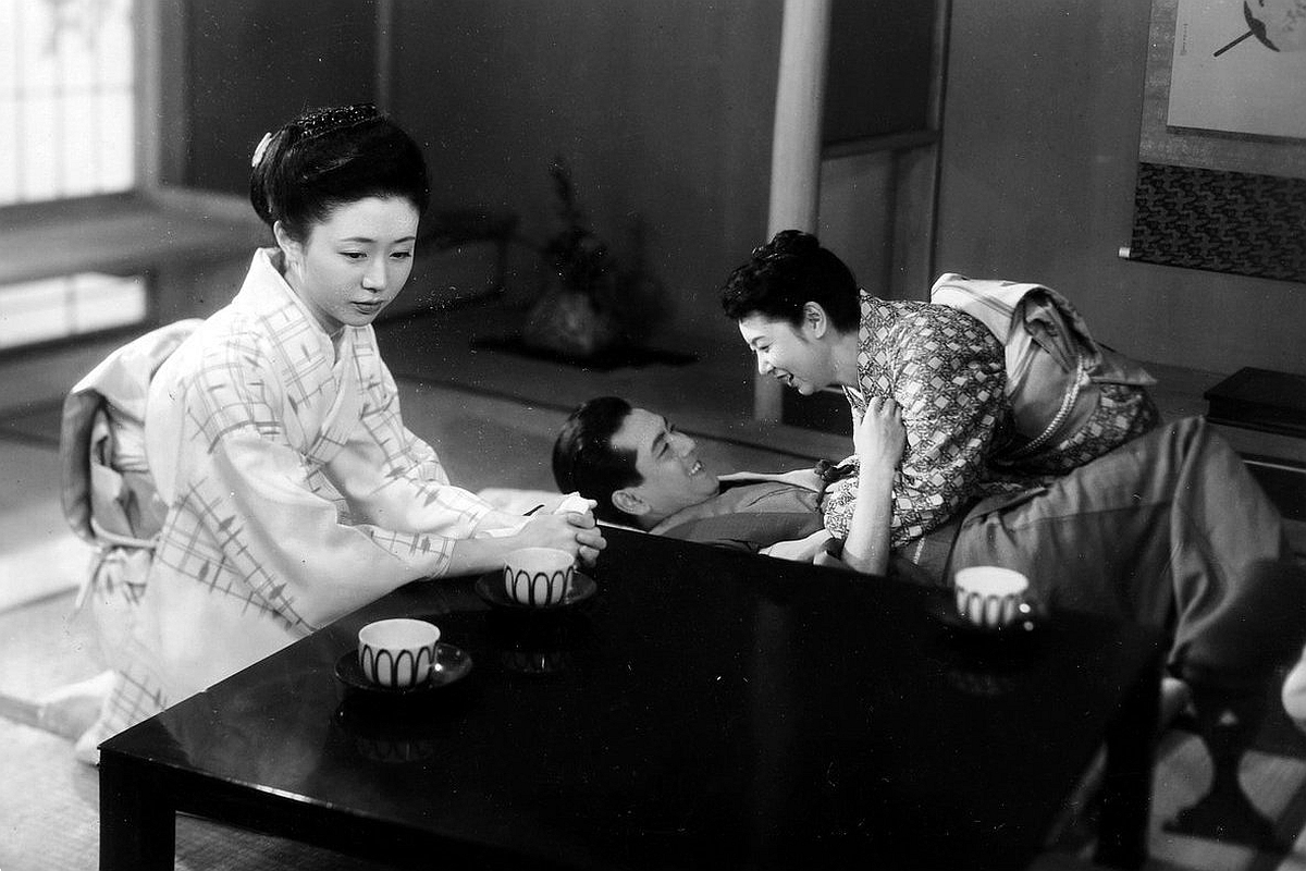 From left to right: Nobuko Otowa, Yūji Hori and Kinuyo Tanaka in Oyū-sama (お遊さま) directed by Kenji Mizoguchi - 1951